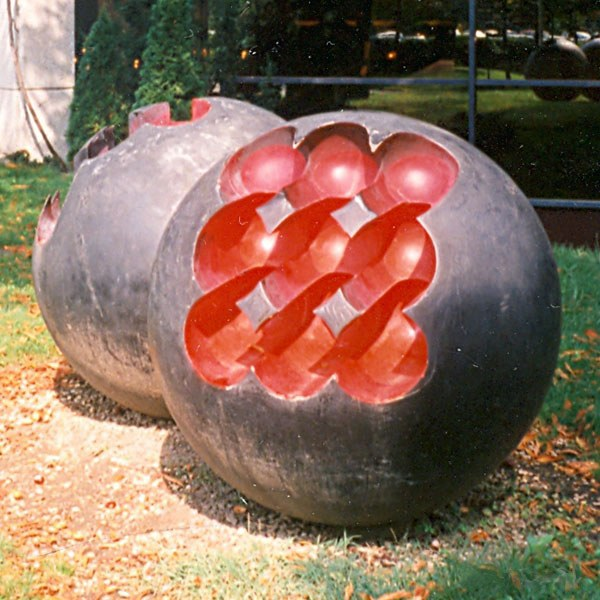 Dual-sphere